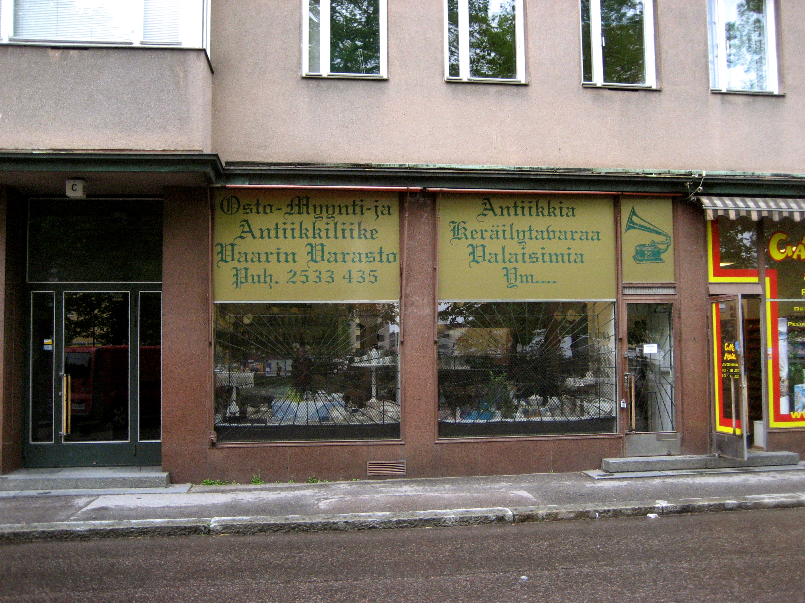 Antique shop "Vaarin varasto" in Tampere, Finland.